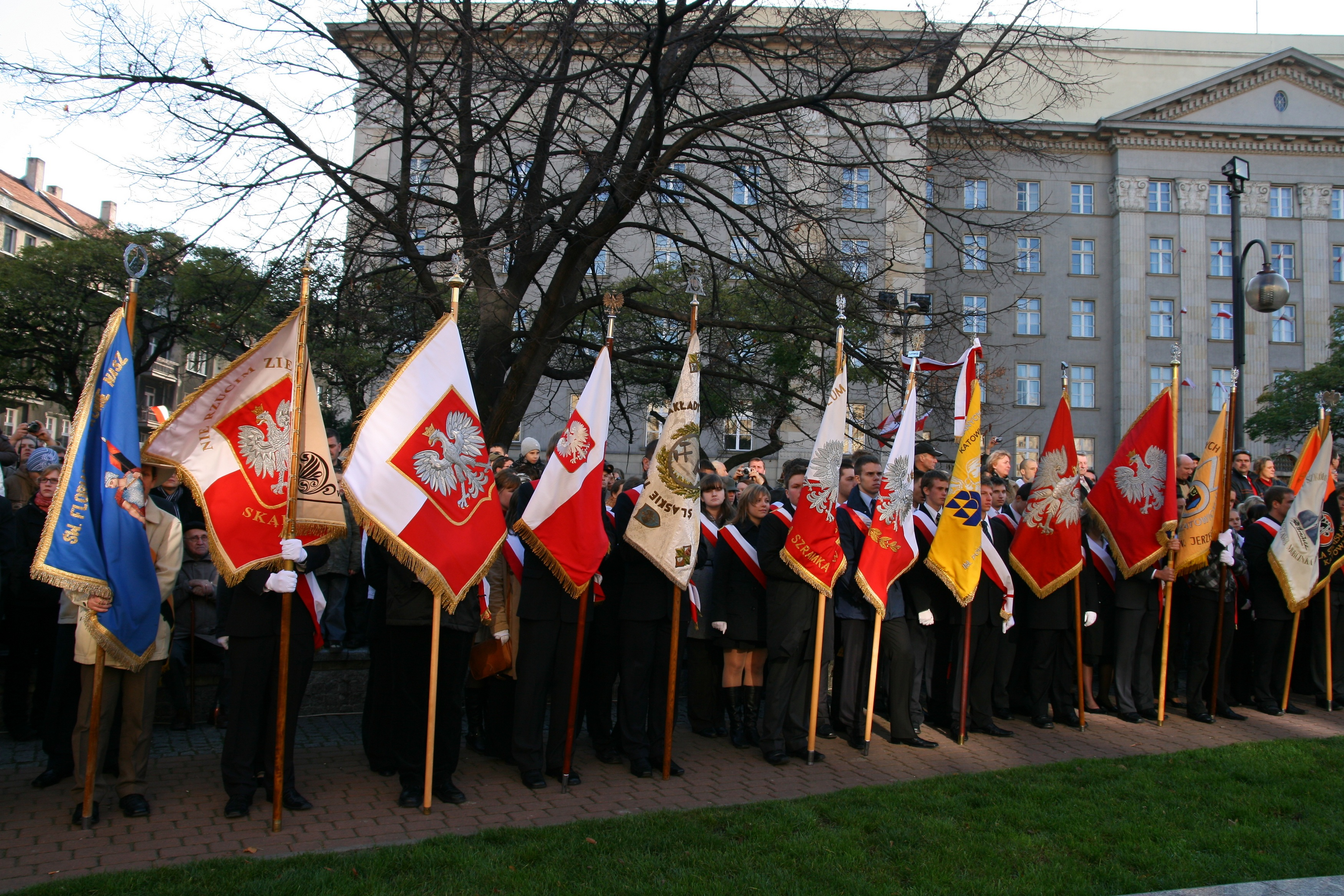 Independence Day 2008 in Katowice.